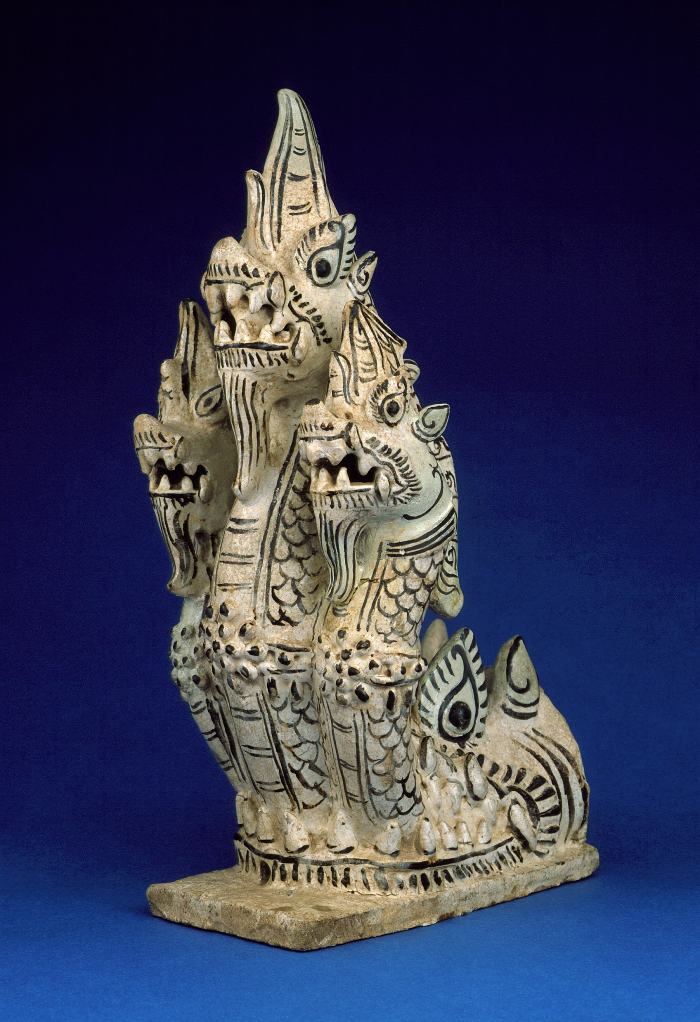 Thailand, Sawankhalok, circa 1400-1500 Architecture; Architectural Elements Modeled stoneware with cream slip, modeled, applied, incised and underglaze black painted decoration, and clear glaze 13 1/4 x 6 x 7 1/8 in. (33.66 x 15.24 x 18.1 cm) Gift of Margot and Hans A. Ries (M.73.119.12) South and Southeast Asian Art